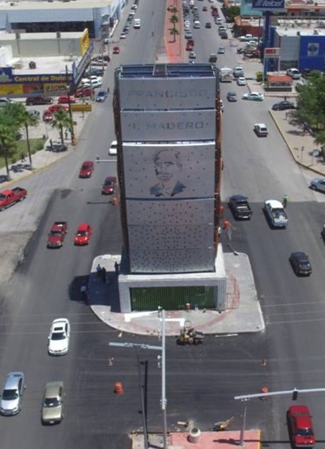 Francisco I. Madero monument.